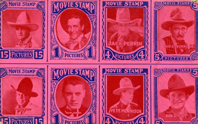 8 stamp images of Motion Picture actors, William Desmond, Pete Morrison, Peewee Holmes, Jack Perrin, Bud Osborne, Hoot Gibson, Ralph Forbes, Bob Steele